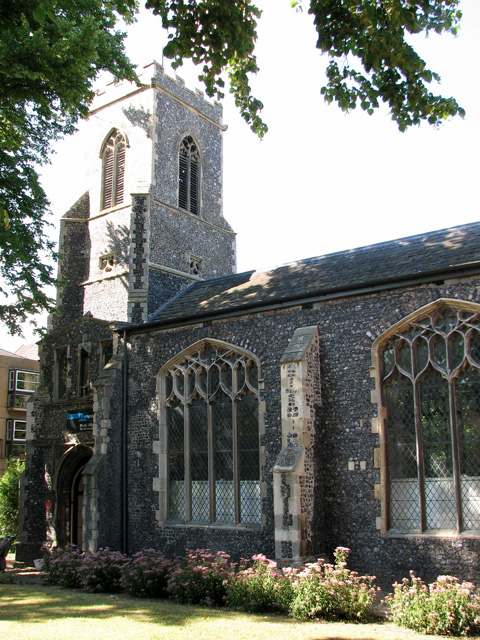 St Margaret de Westwick, Norwich